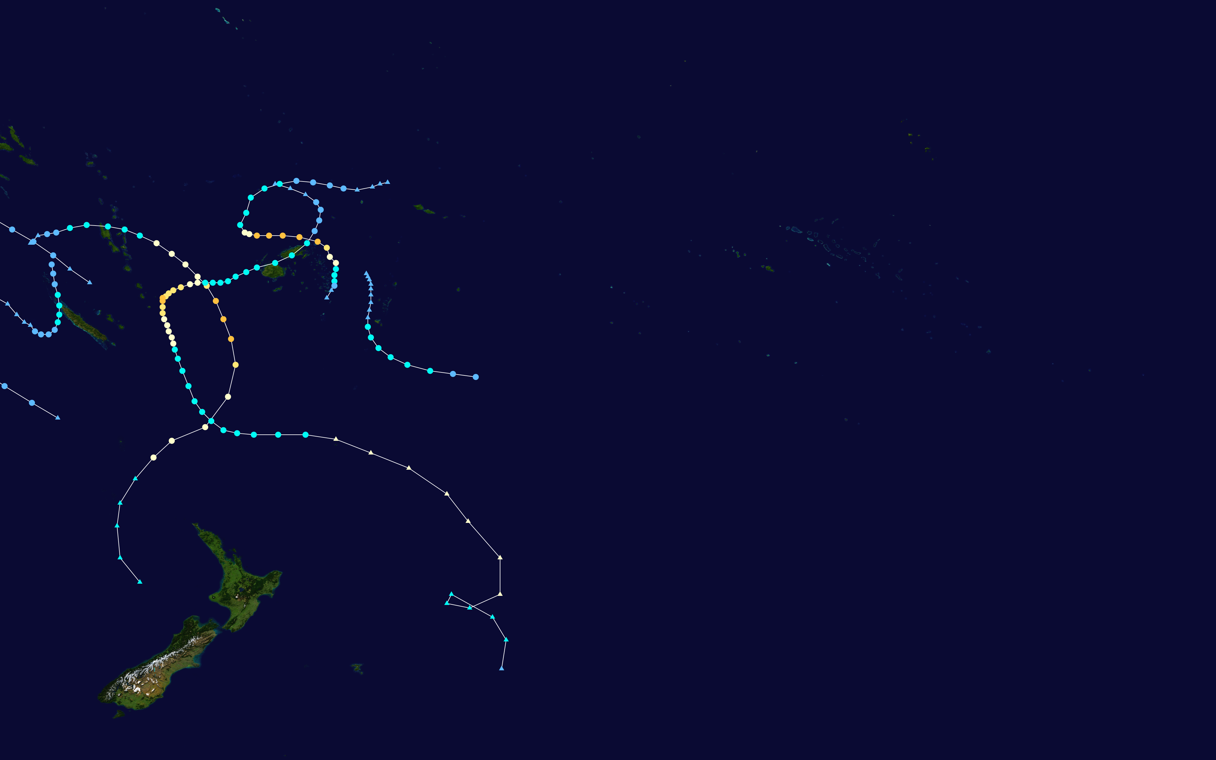 This map shows the tracks of all tropical cyclones in the 2007-08 South Pacific cyclone season. The points show the location of each storm at 6-hour intervals. The colour represents the storm's maximum sustained wind speeds as classified in the Saffir-Simpson Hurricane Scale (see below), and the shape of the data points represent the type of the storm. Saffir–Simpson scale Tropical depression≤38 mph≤62 km/h Category 3111–129 mph178–208 km/h Tropical storm39–73 mph63–118 km/h Category 4130–156 mph209–251 km/h Category 174–95 mph119–153 km/h Category 5≥157 mph≥252 km/h Category 296–110 mph154–177 km/h Unknown Storm type Tropical cyclone Subtropical cyclone Extratropical cyclone / Remnant low / Tropical disturbance / Monsoon depression